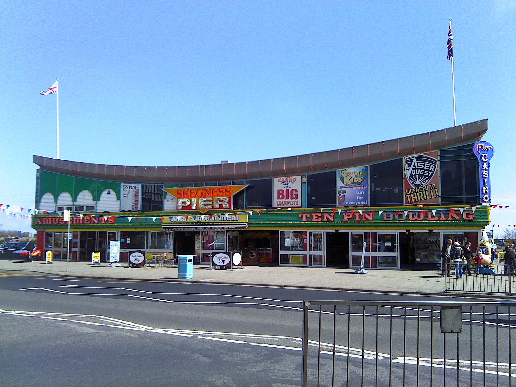 The main entrance to Skegness Pier from North Parade